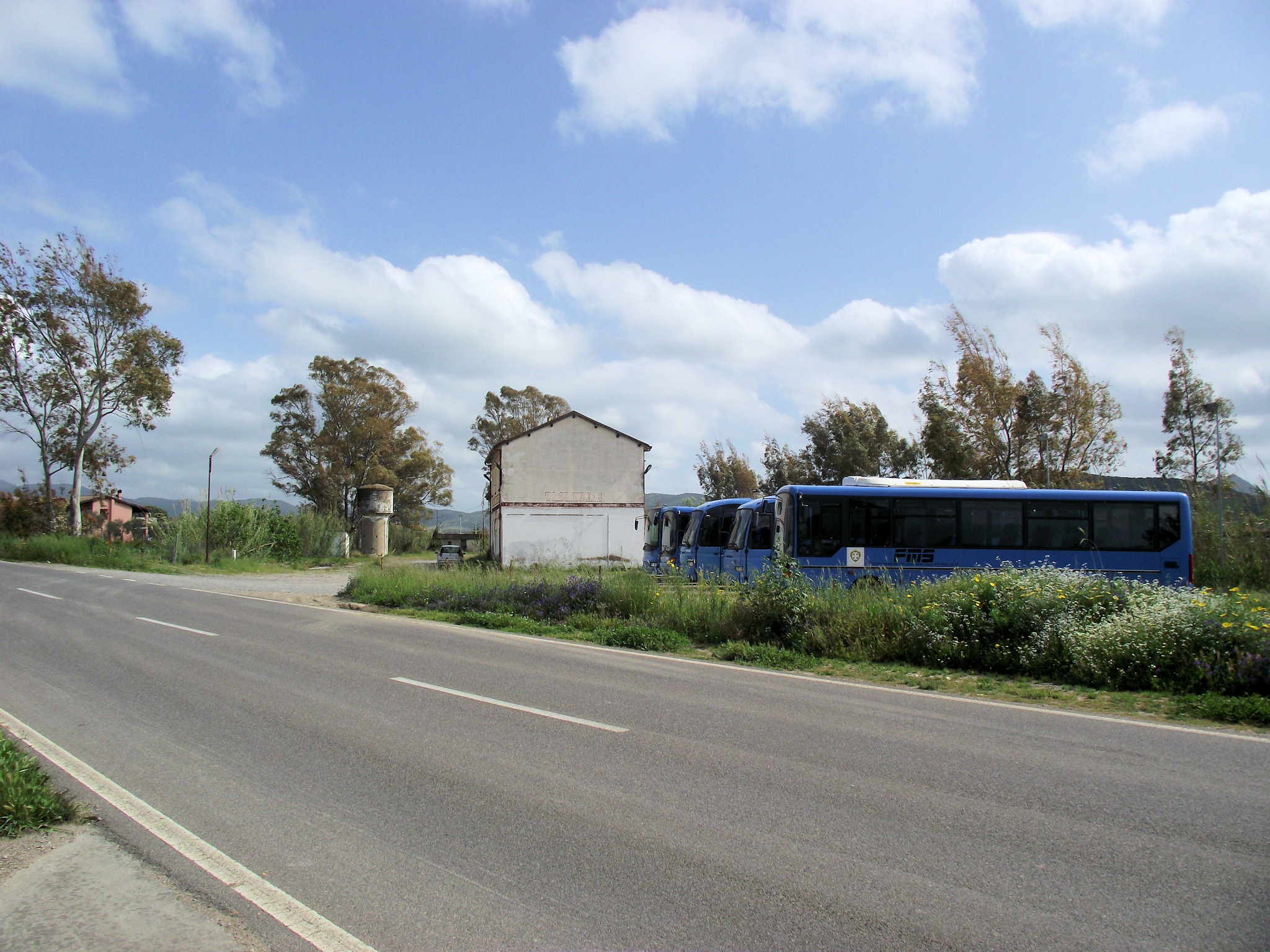 The former railway station of Santadi, in Sardinia, Italy